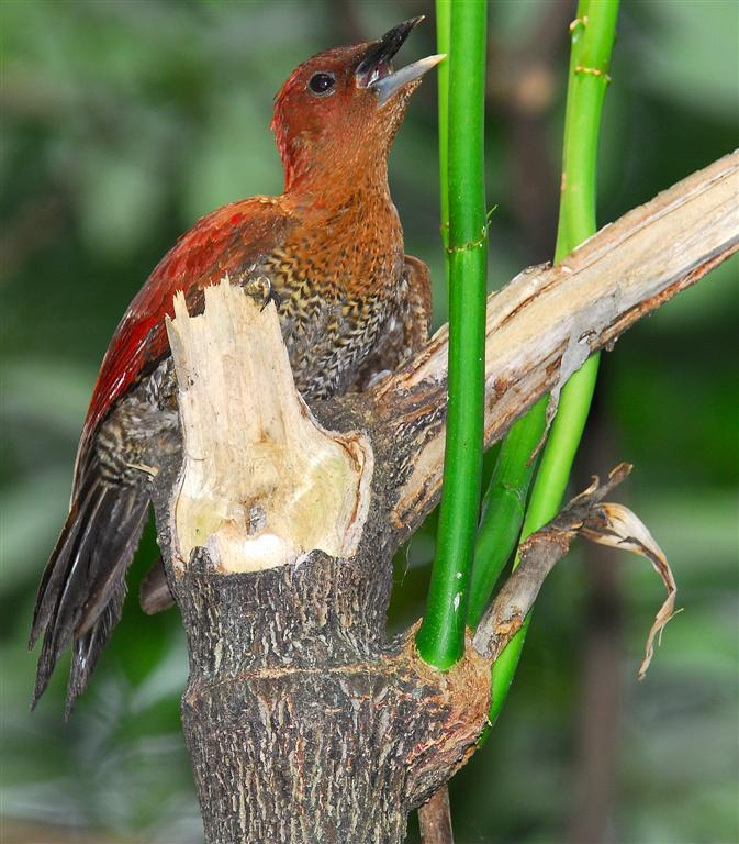 Banded Woodpecker (Picus mineaceus)